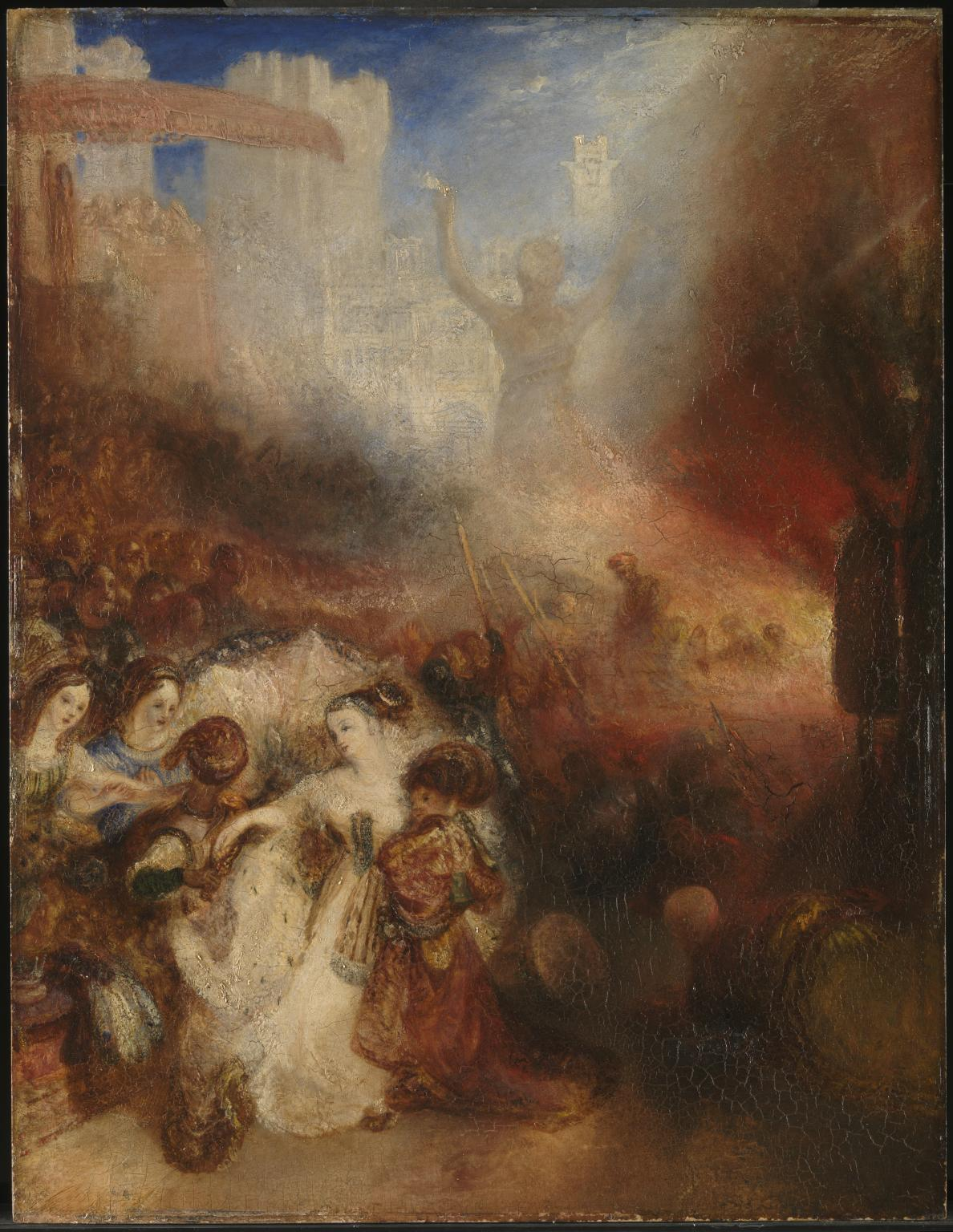 Joseph Mallord William Turner Shadrach, Meshach and Abednego in the Burning Fiery Furnace exhibited 1832. TATE Turner exhibited this picture in 1832, with a passage from the Bible (Daniel iii, 26). This told how Shadrach, Meshach and Abednego emerged unharmed from the fiery furnace they had been thrown into for refusing to worship Nebuchadnezzar's idol (visible in the distance). Turner painted this to accompany a biblical picture by his friend George Jones, shown in the same exhibition (and also now in Tate's collection). Jones described this as 'Another instance of Turner's friendly contests in Art', adding that though the Hanging Committee gave Turner's picturethe best position, Turner had them swapped so that Jones would benefit.